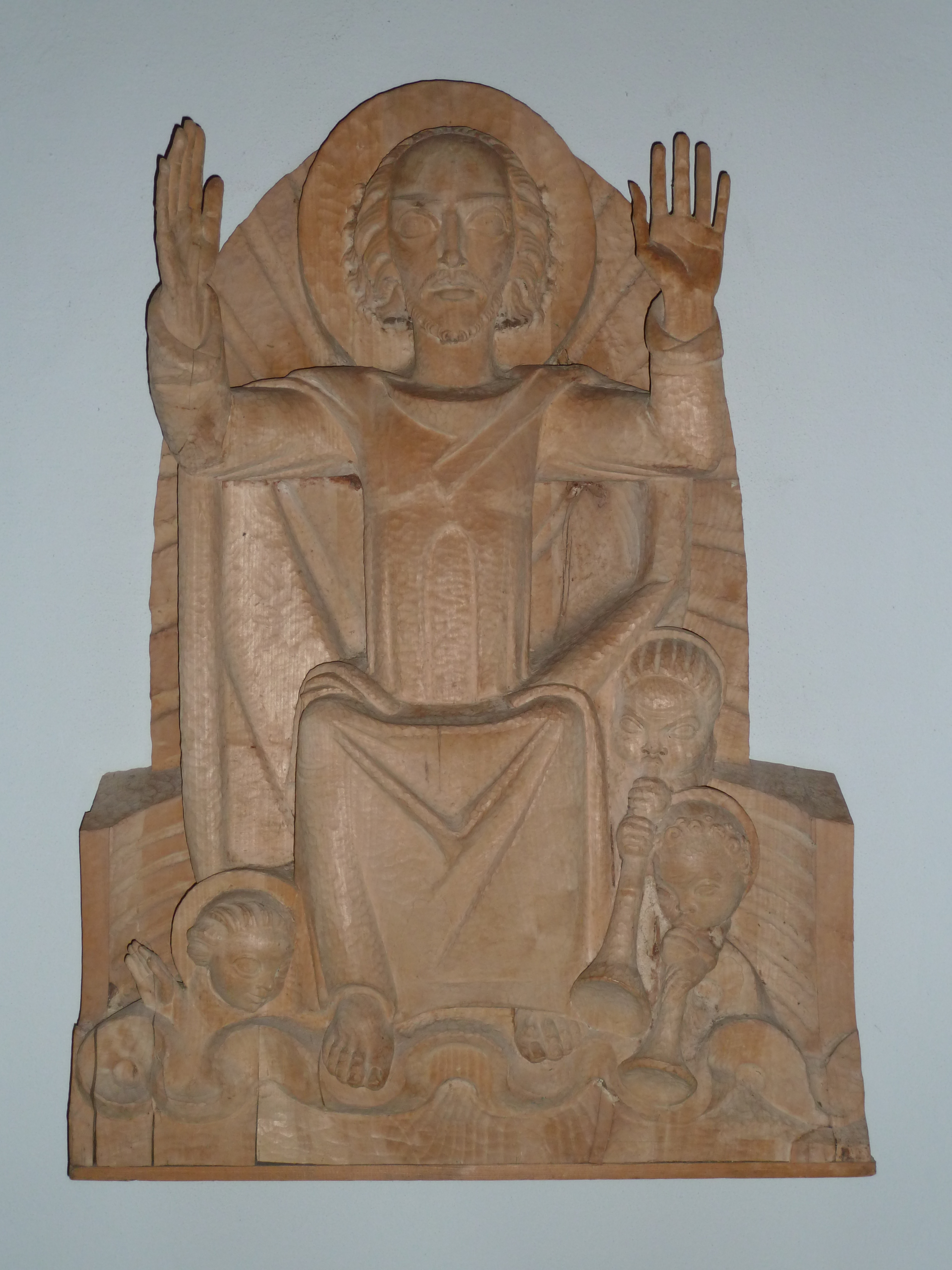 own file